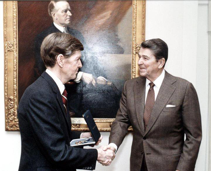 Defense Intelligence Agency veteran intelligence officer John T. Hughes being awarded the National Security Medal by President Reagan for his service to the agency and the country.